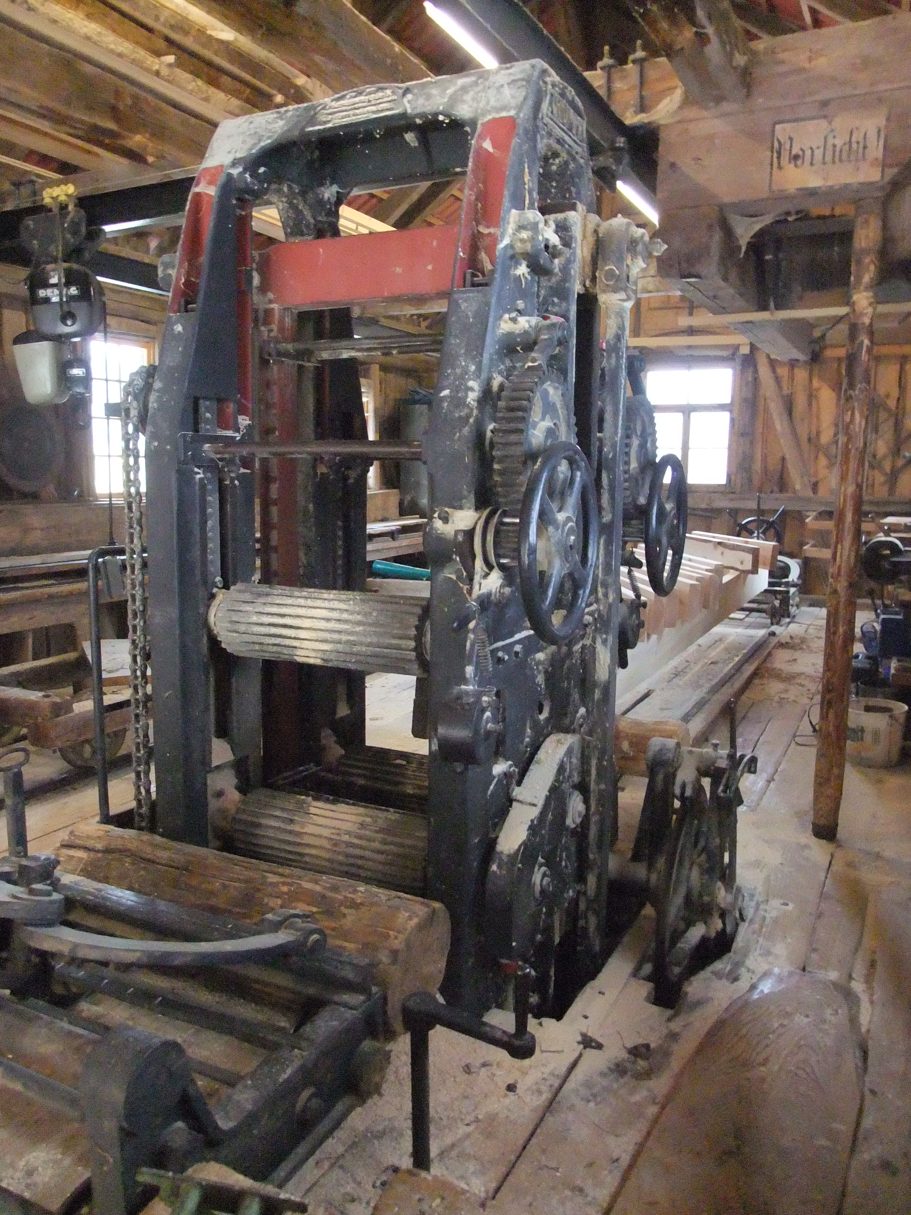 Mill of castle Liebenthann, historic saw mill, rift saw, saw demonstrations